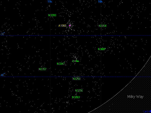 Two-dimensional map of the Hydra supercluster Credits: Powell, Richard. Atlas of the Universe Copyrights information